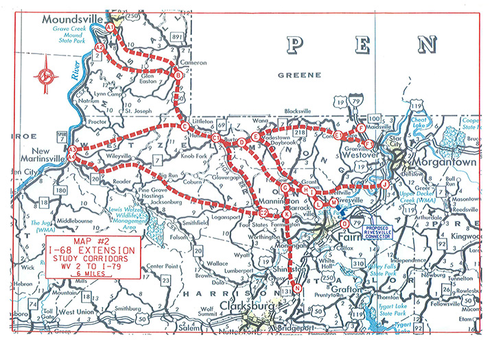 Projected routes studying the extension of I-68 from I-79 to the Ohio Valley